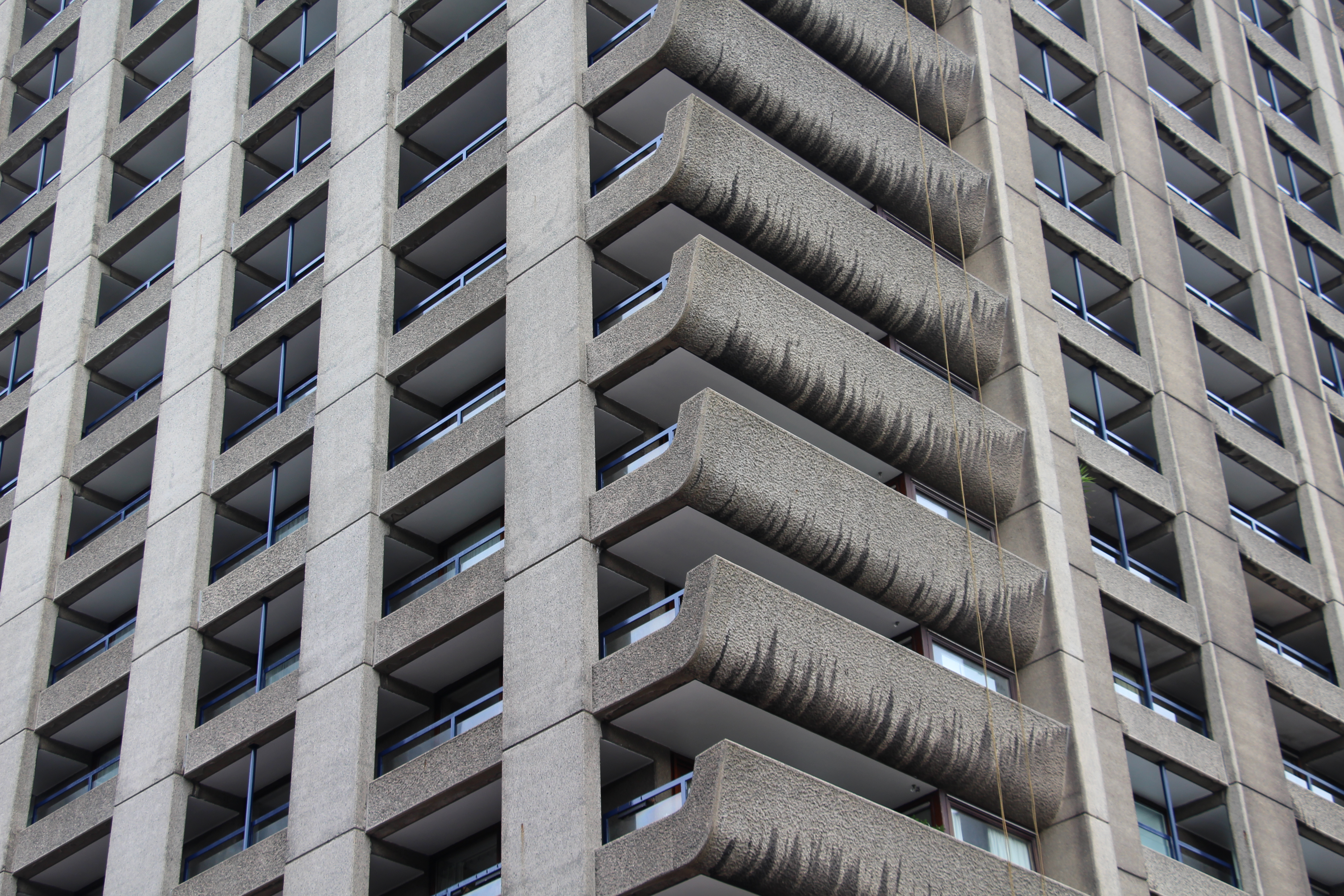 Silk Street Arch. Chamberlin, Powell and Bon 1965-76.